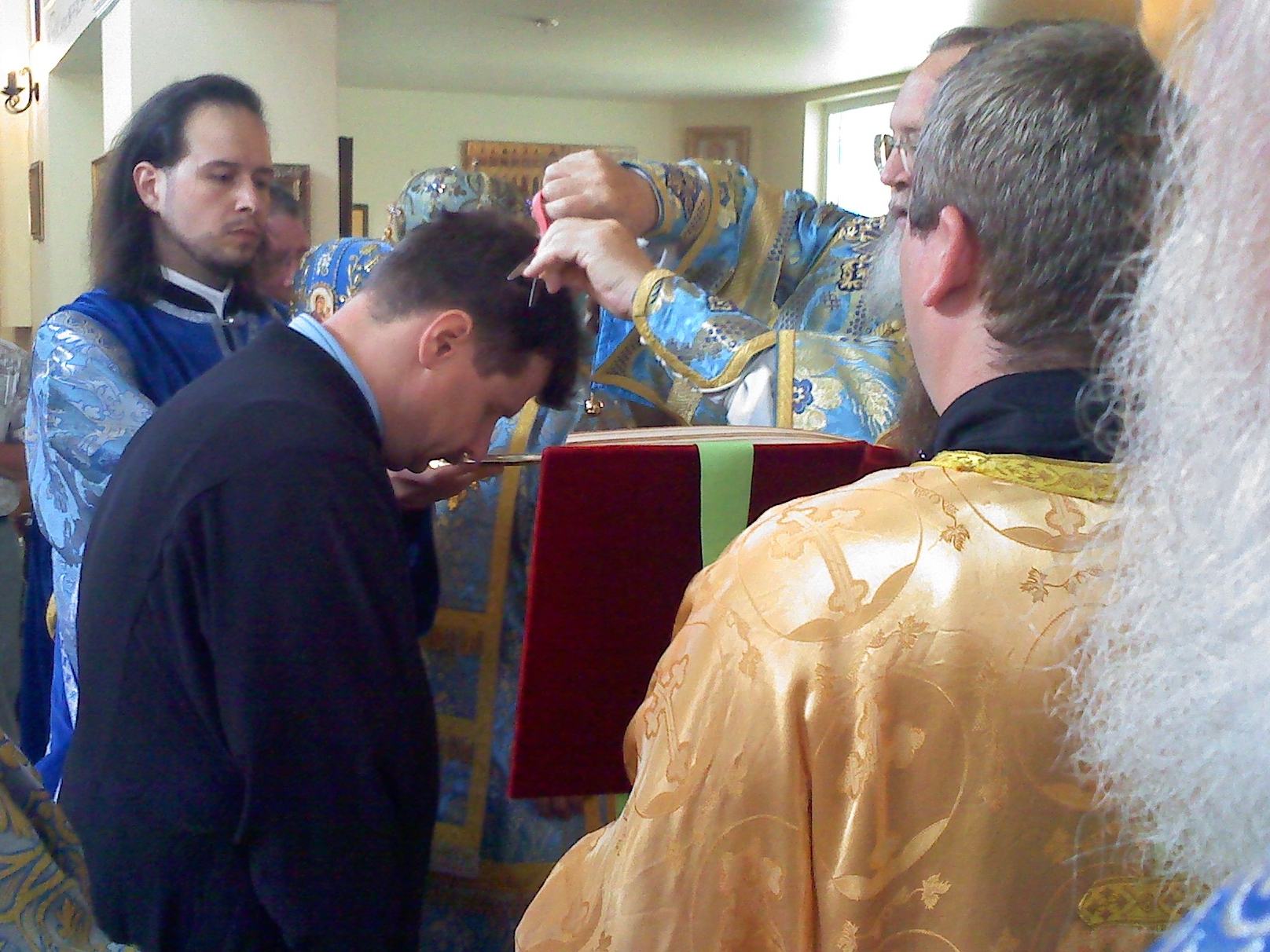 On Orthodox layman, wearing a cassock, is tonsured (note scissors held by the bishop) in preparation for being ordained to the minor orders of candle-bearer and reader.